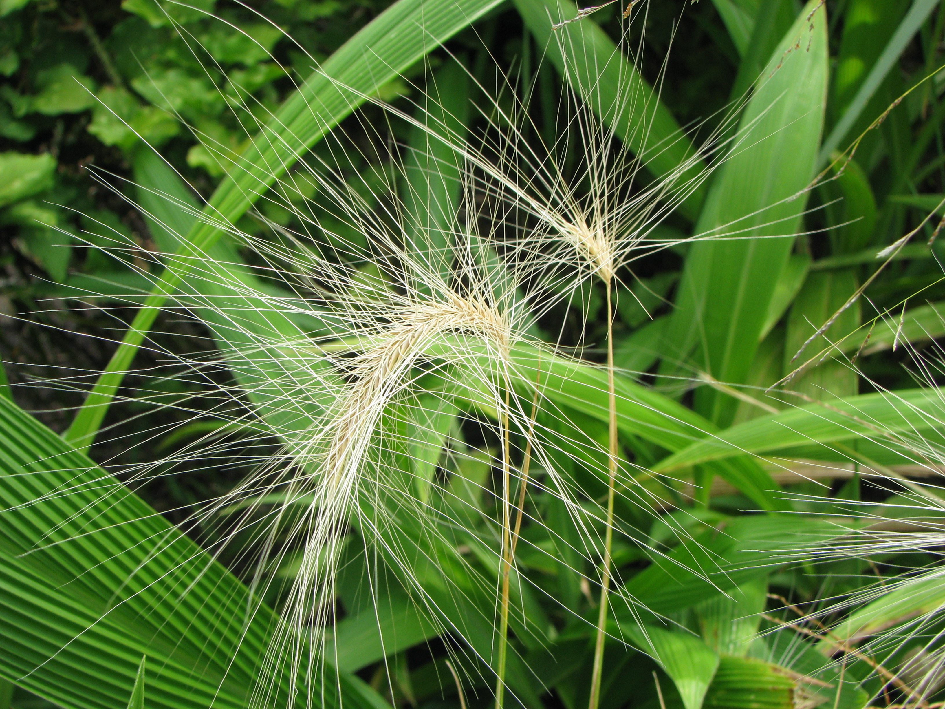 Hordeum jubatum, plant cultivated in Wrocław University Botanical Garden, Wrocław, Poland